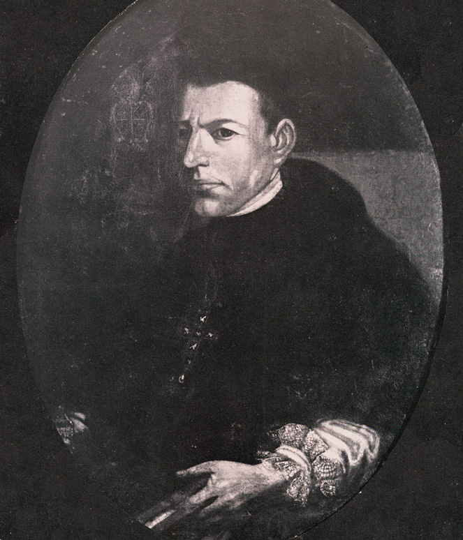 Portrait of Abbot Willibald Grindl of the Imperial Abbey of Irsee (1704-1731). This damaged painting with the abbot's coat of arms barely discernible is the only surviving portrait of Abbot Grindl, who ruled Irsee for a long time at a time of prosperity. He revamped the abbey's church in the baroque style. The painting from an unknown artist is believed to date from 1710-1720.